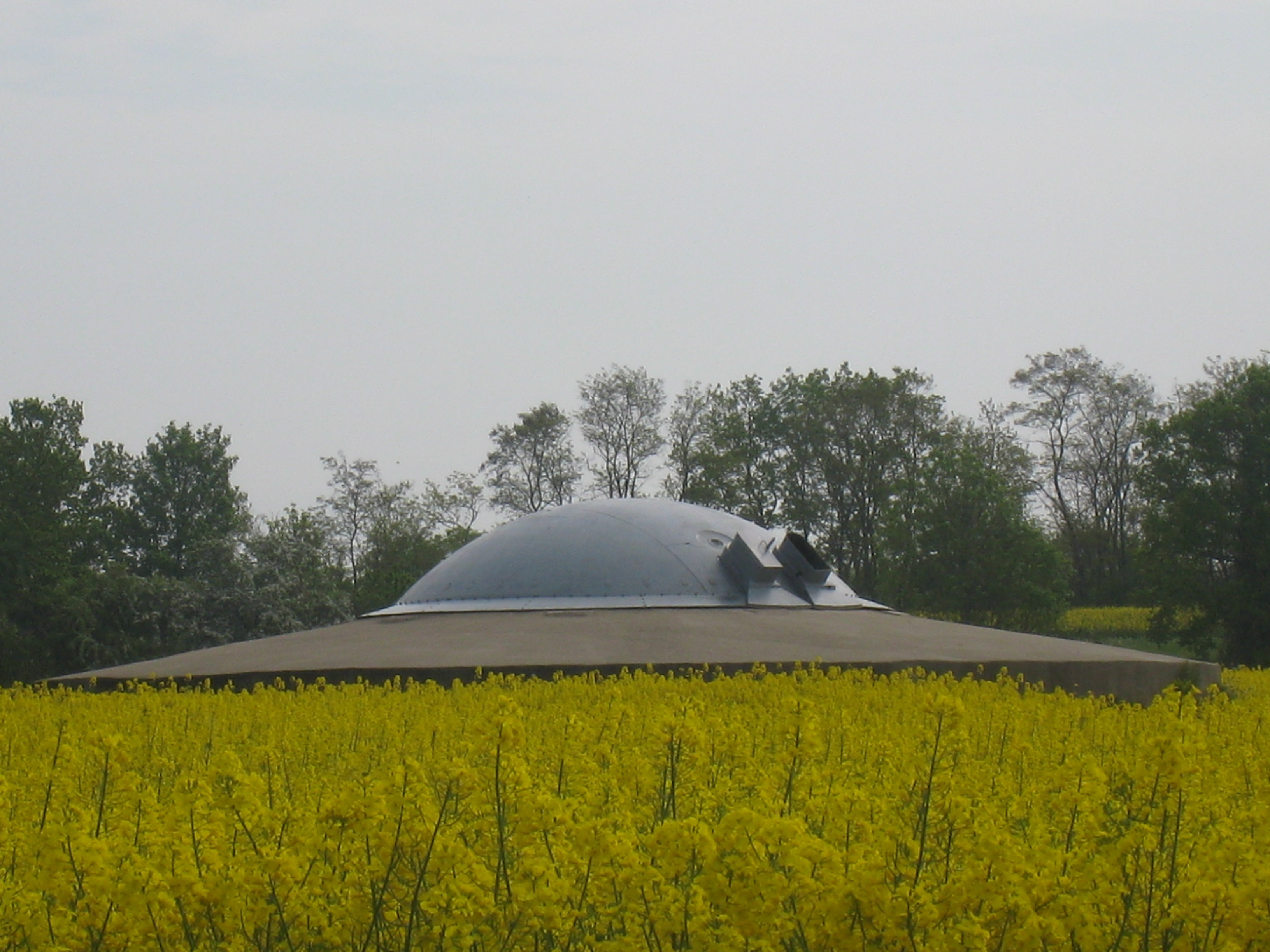 Fort Eben-Emael